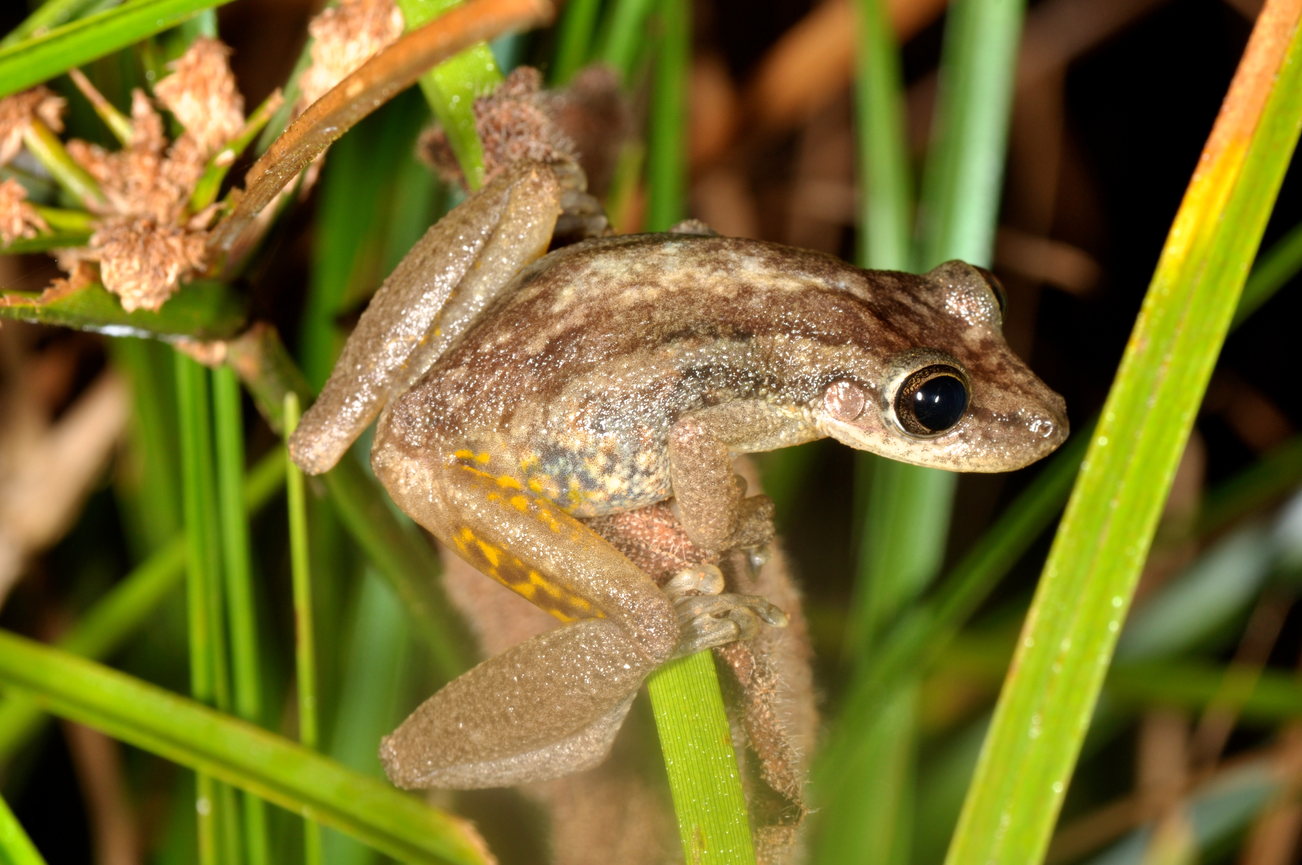 Red-snouted treefrog (Scinax ruber)